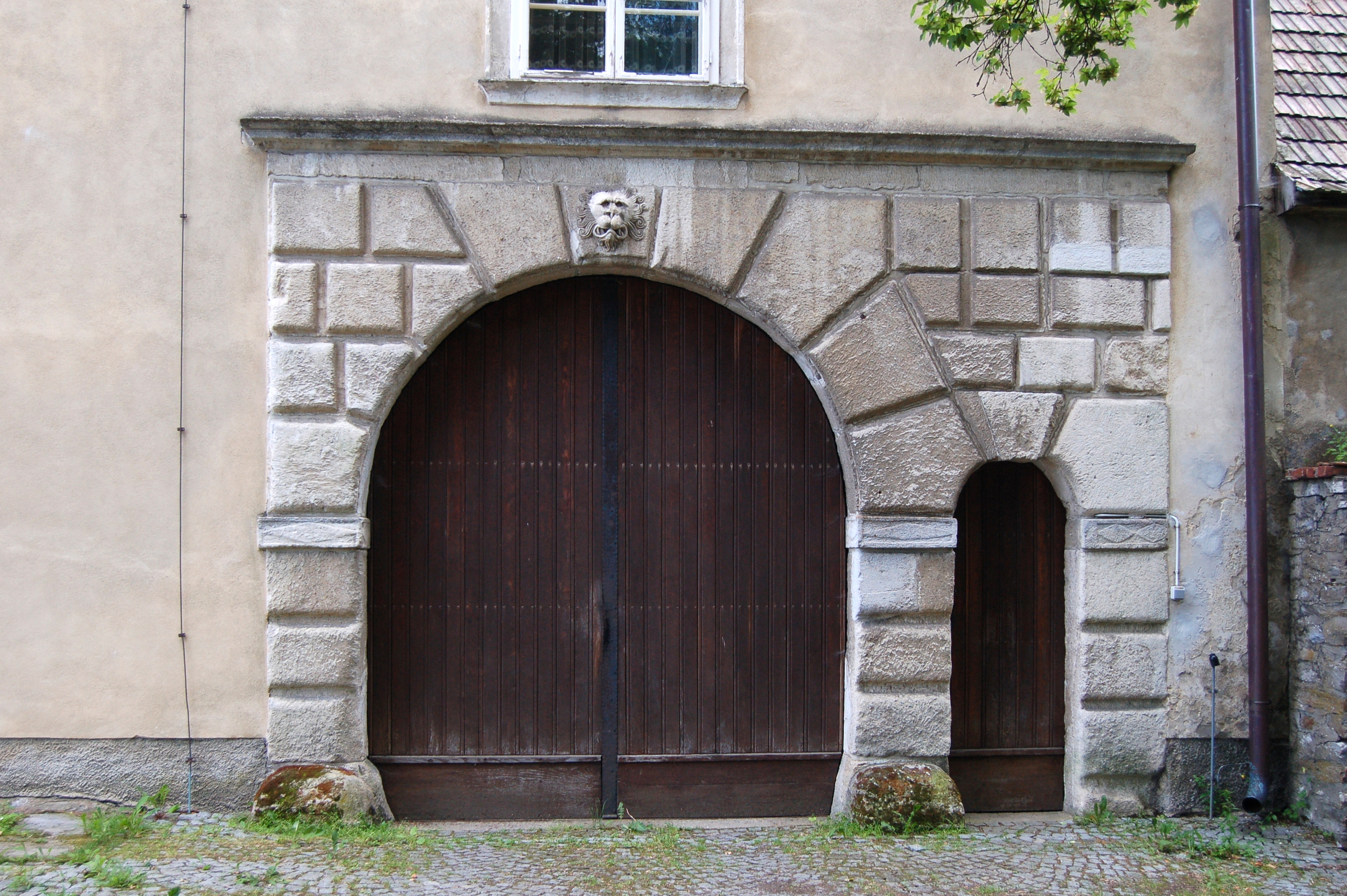 The rectory in Altpölla as well es the associated garden are cultural heritage monuments. Here the door of the rectory.